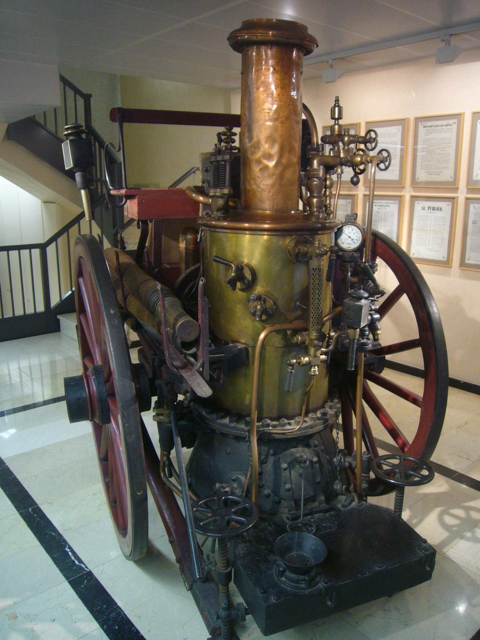 Mutua de Propietarios - (Barcelona) Machine manufactured in 1904 by Flader Feuerlöschgerätefabrik